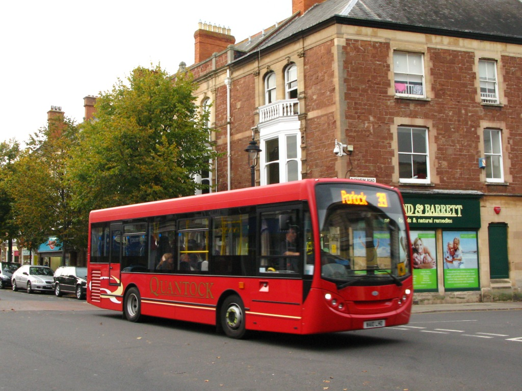 Quantock Motor Services' WA10LHO, a recemtly built Alexander Dennis Enviro 200, in Minehead Parade on route to Porlock, Somerset.